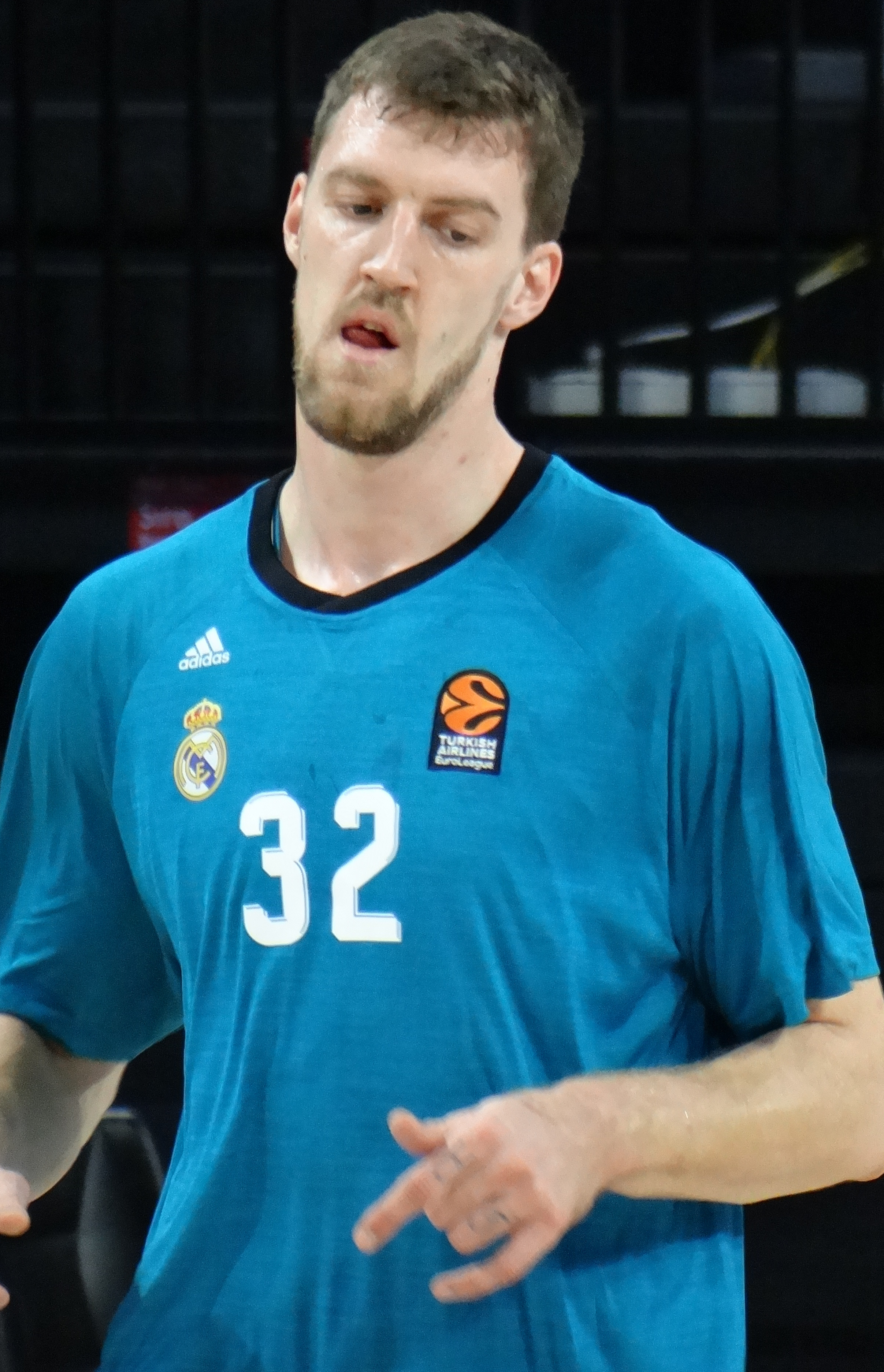 Ognjen Kuzmić 32 Real Madrid Baloncesto Euroleague 20171012